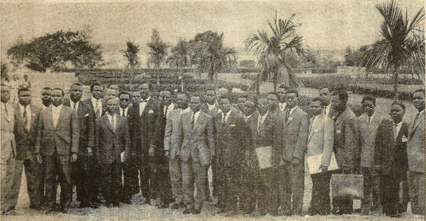 Patrice Lumumba (left center) poses with his government outside the Palais de la Nation immediately following his swearing-in ceremony. Joseph-Désiré Mobutu is fifth from the right, in sunglasses. Pierre Mulele is third from the right. Marcel Bisukiro is fourth from the left. Thomas Kanza is eighth from the right, in the back, partially obscured